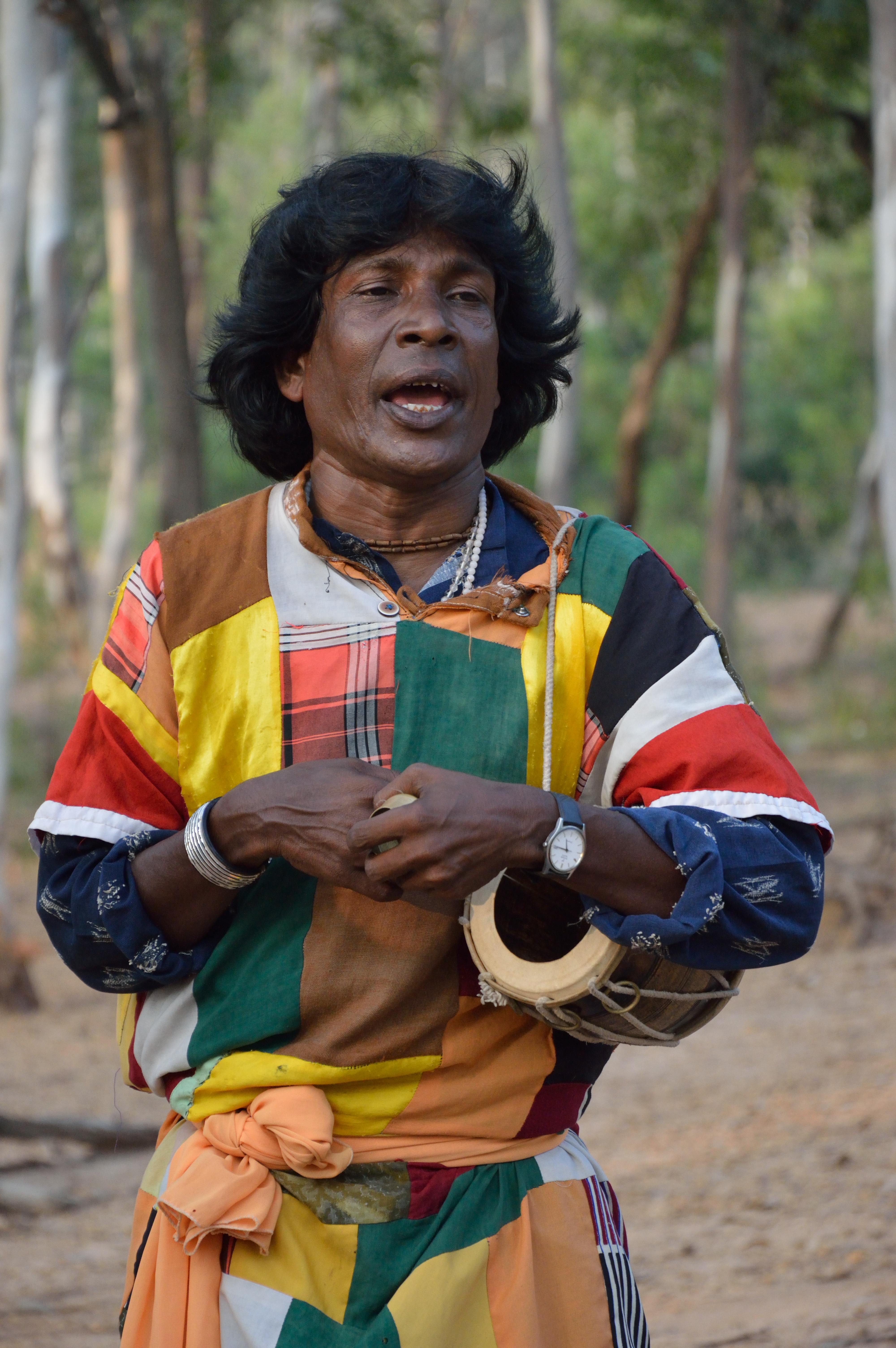 Photographed at the Sonajhuri-Khoai area. It is very near from Santiniketan and Prantik railway station, Birbhum. In every Saturday Haat ( bn: Sanibarer Haat) happen mainly with village people made ethnic decorative ornaments, house-hold materials and home-made sweets & snacks. The Baul songs are also performed by various Baul groups. The buyers are mainly come from Kolkata or other parts from West Bengal.